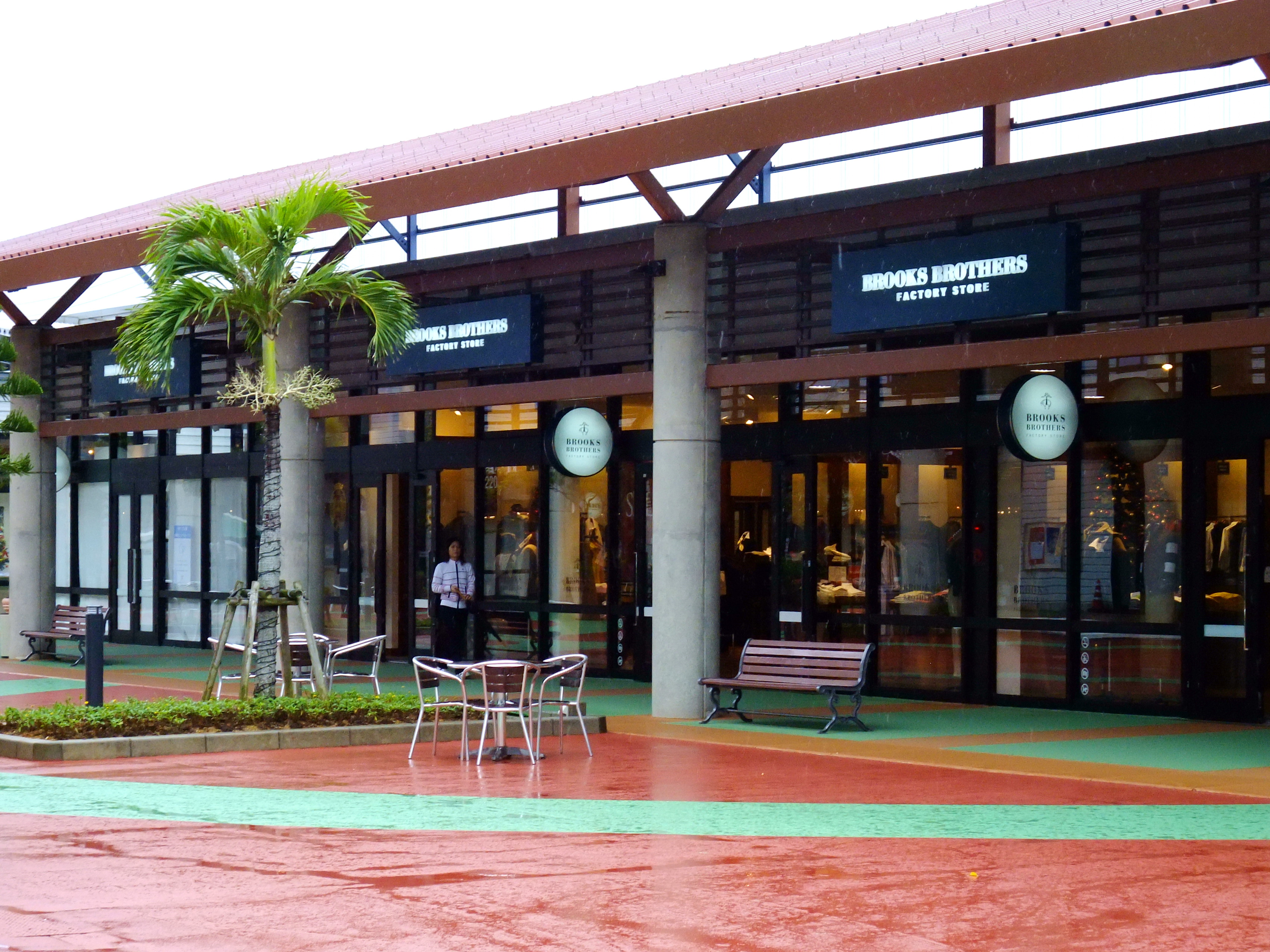 Brooks Brothers Factory Store at Okinawa Outlet Mall Ashibinaa, Tomigusuku, Okinawa.